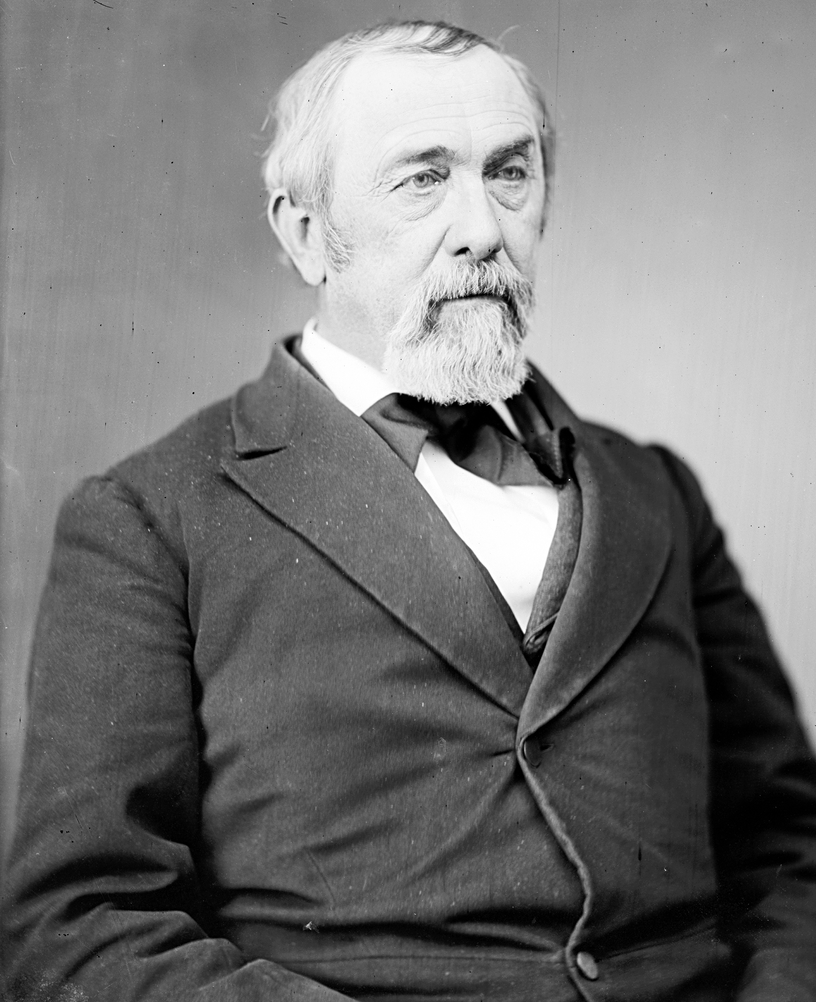 Beverly B. Douglas, US Representative from Virginia